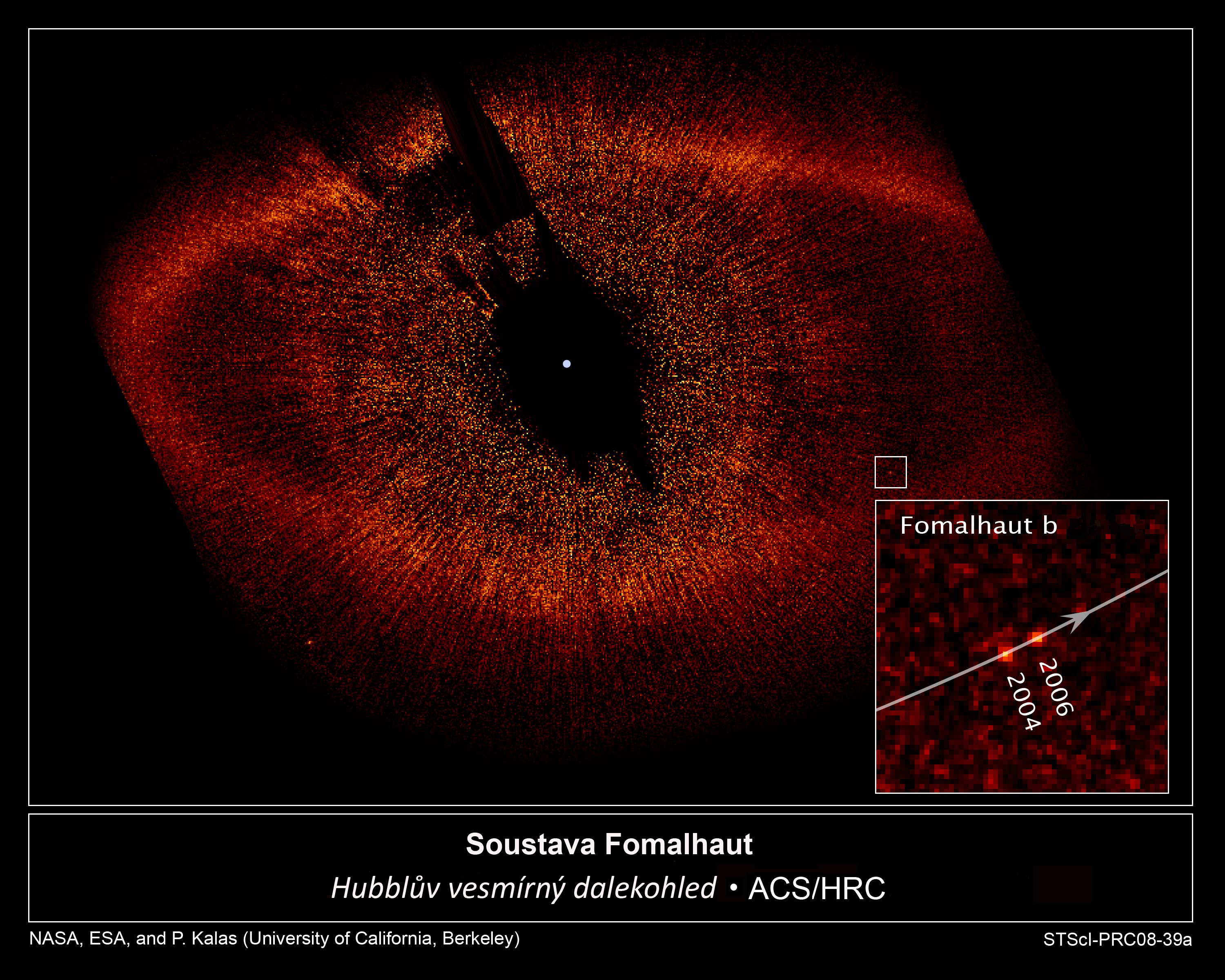 This image, taken with the Advanced Camera for Surveys aboard NASA's Hubble Space Telescope, shows the newly discovered planet, Fomalhaut b, orbiting its parent star, Fomalhaut. The small white box at lower right pinpoints the planet's location. Fomalhaut b has carved a path along the inner edge of a vast, dusty debris ring encircling Fomalhaut that is 21.5 billion miles across. Fomalhaut b lies 1.8 billion miles inside the ring's inner edge and orbits 10.7 billion miles from its star. The inset at bottom right is a composite image showing the planet's position during Hubble observations taken in 2004 and 2006. Astronomers have calculated that Fomalhaut b completes an orbit around its parent star every 872 years. The white dot in the center of the image marks the star's location. The region around Fomalhaut's location is black because astronomers used the Advanced Camera's coronagraph to block out the star's bright glare so that the dim planet could be seen. Fomalhaut b is 1 billion times fainter than its star. The radial streaks are scattered starlight. The red dot at lower left is a background star. The Fomalhaut system is 25 light-years away in the constellation Piscis Australis. This false-color image was taken in October 2004 and July 2006.